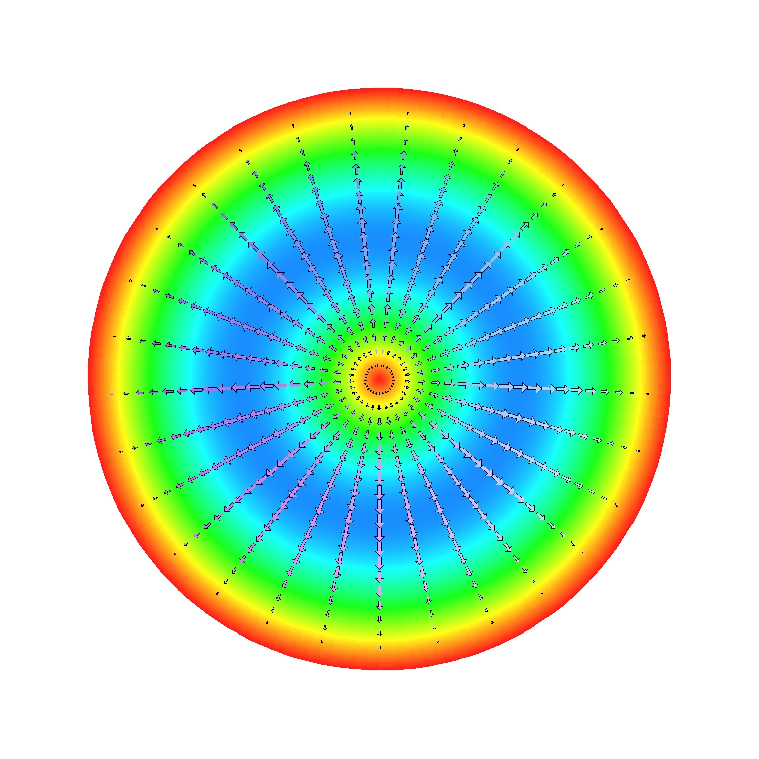 TE01 Mode plot in a circular waveguide.